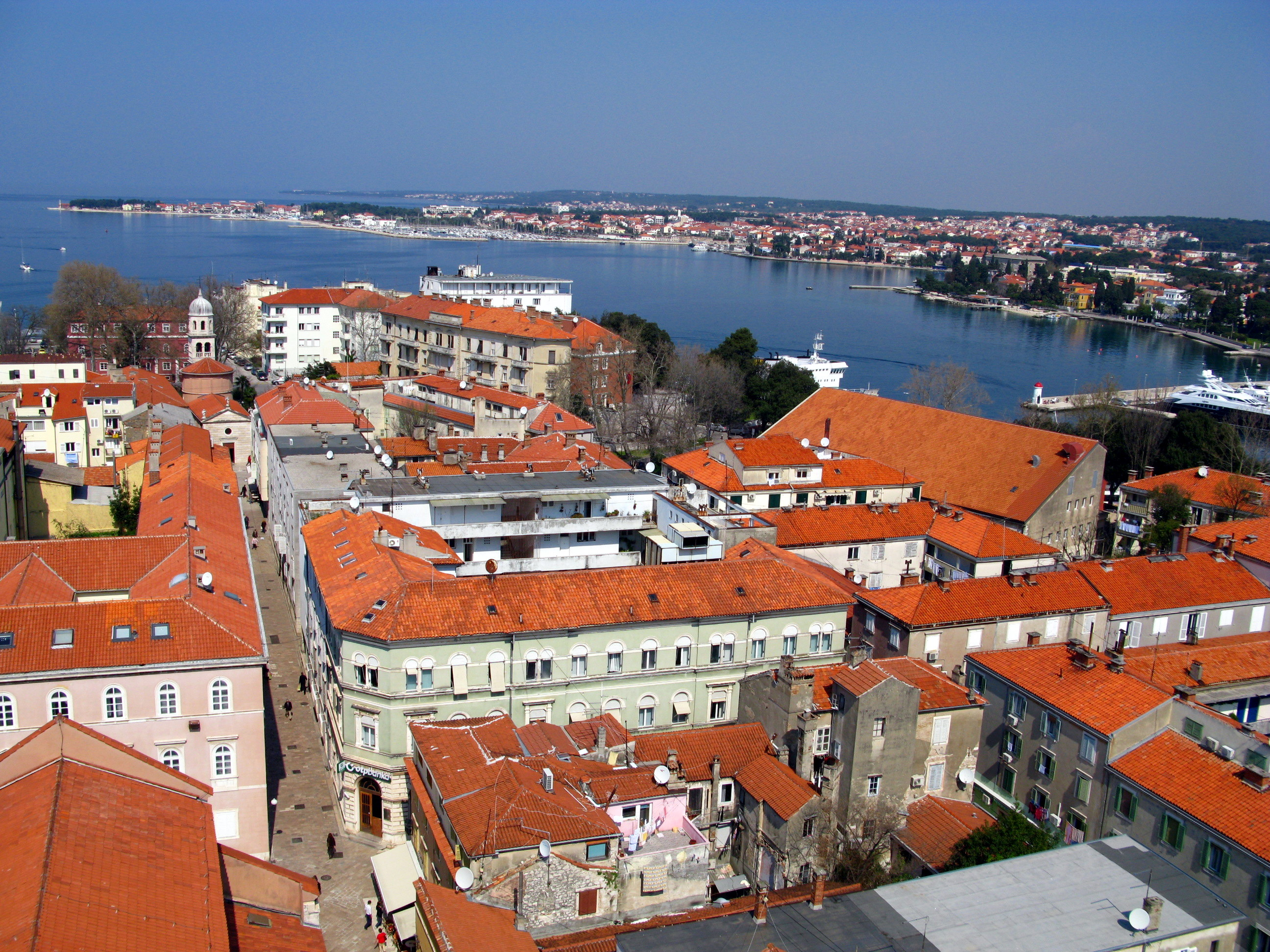 View from tower of cathedral of St. Anastasia in Zadar in Zadar / Croatia / Adriatic Sea. In the foreground, the red roofs of the old town, behind the harbor entrance. In the background, suburbs and peninsula Borik.